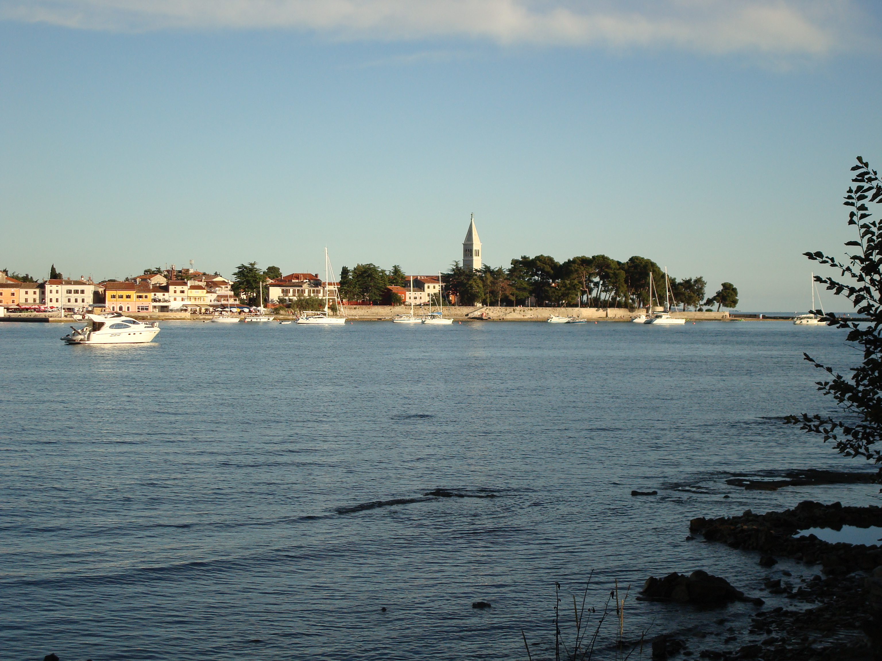 Novigrad in Istra, Croatia.